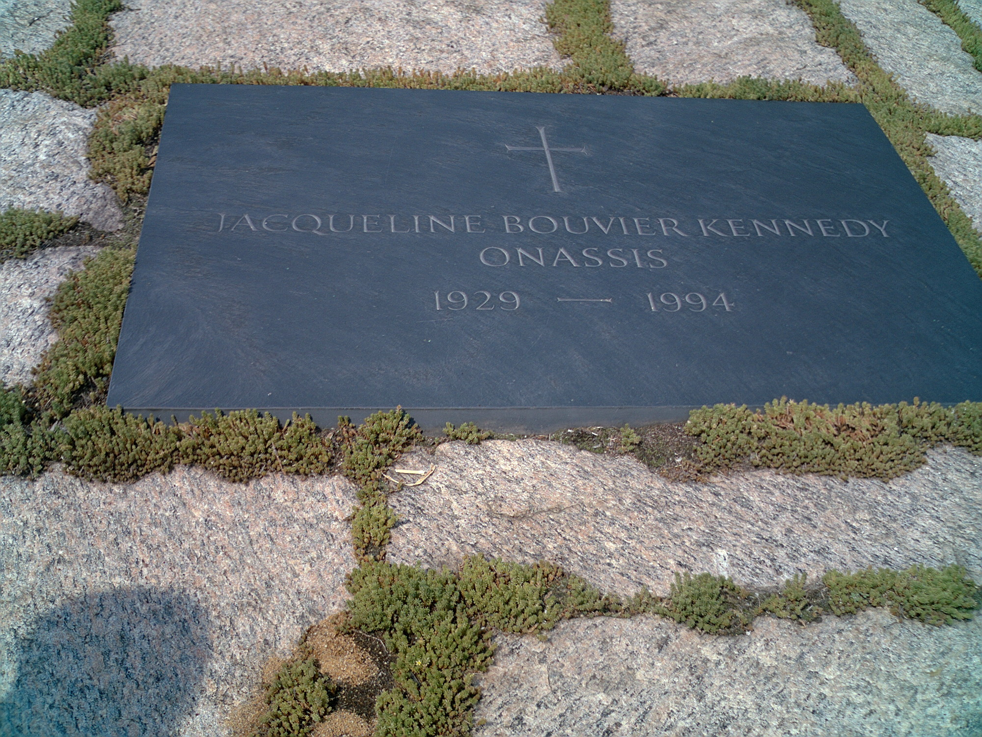 Grave of Jacqueline Kennedy Onassis, taken on a trip to Washington, D.C.